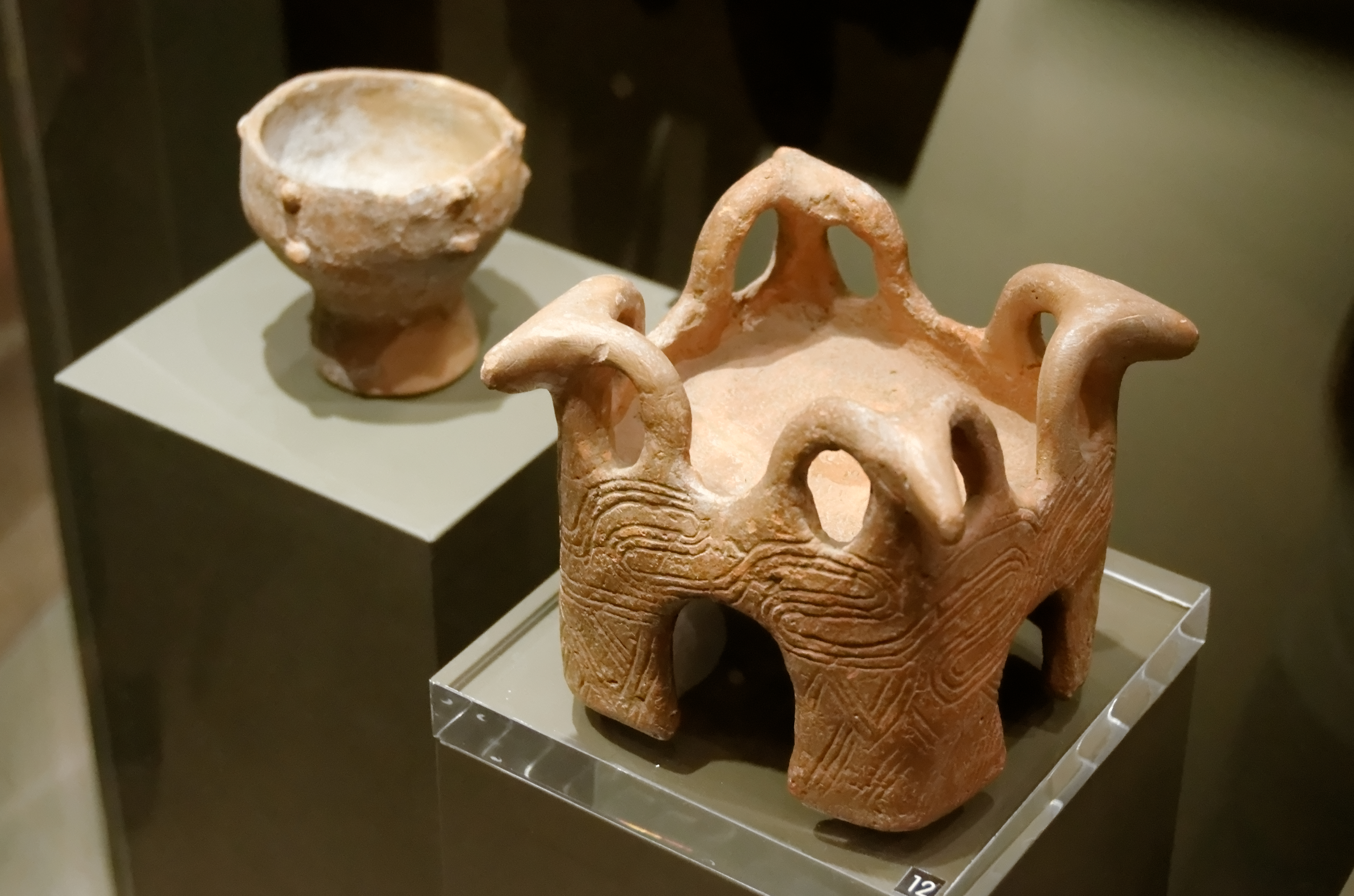 Altar from neolithic period with sheep's head. From Szeged, Hungary. Hungarian national museum, Budapest